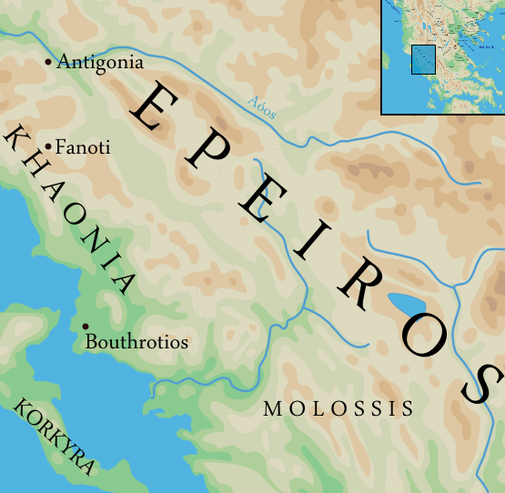 Map of Epeiros in Ancient Greek showing Antigoneia and Phalate.